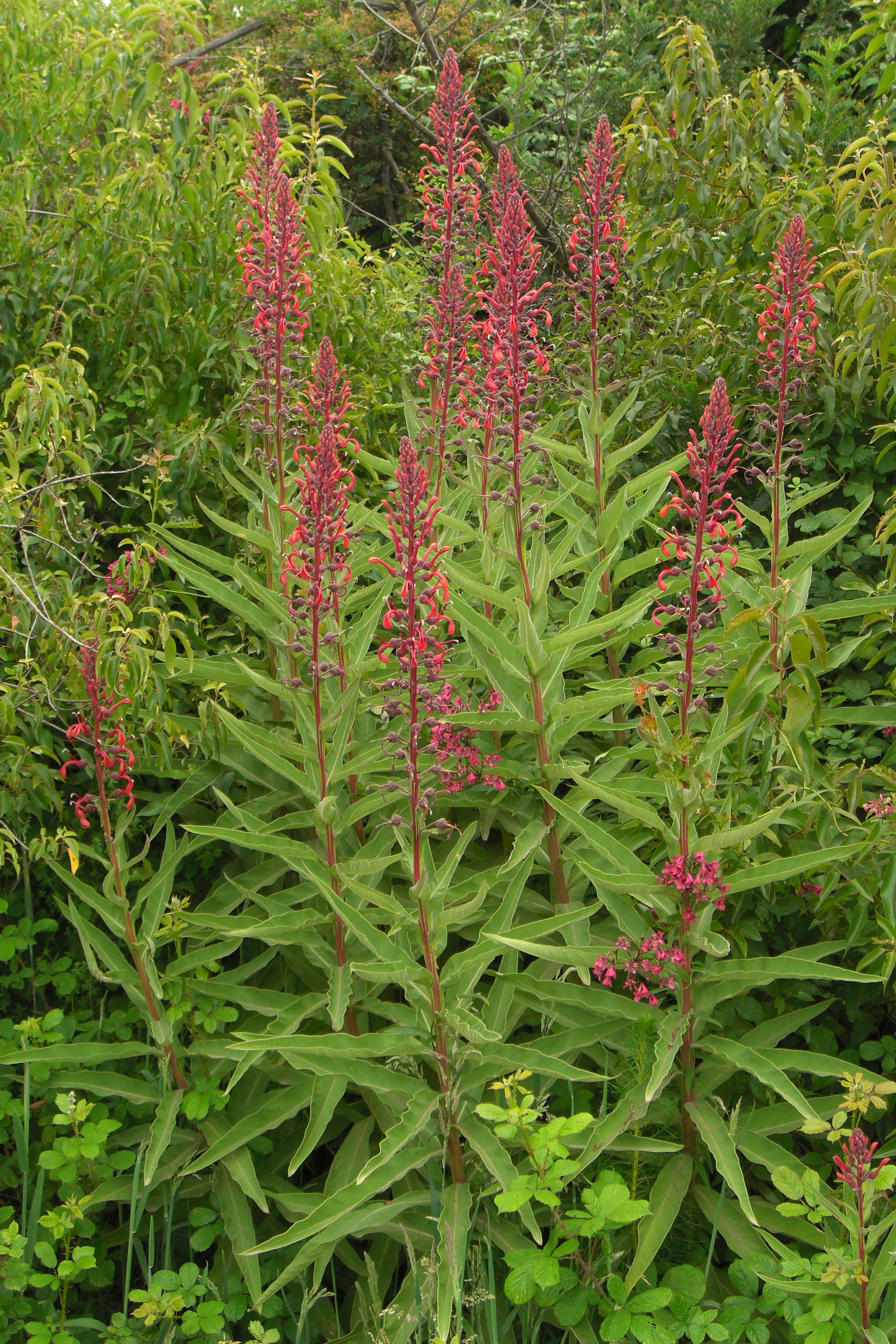 Lobelia tupa L. 20081202.2 near Tirua, Chilean coast I was calling this "Giant Cardinal Flower" because it appeared to be distantly related to the cardinal flower from the eastern US based on details of the flower. (It keyed out to Campanulaceae, at any rate, and it was bilaterally symmetric...) It is especially common in moist places along roads and streams on the coast of central Chile. According to wikipedia it is endemic to that region.